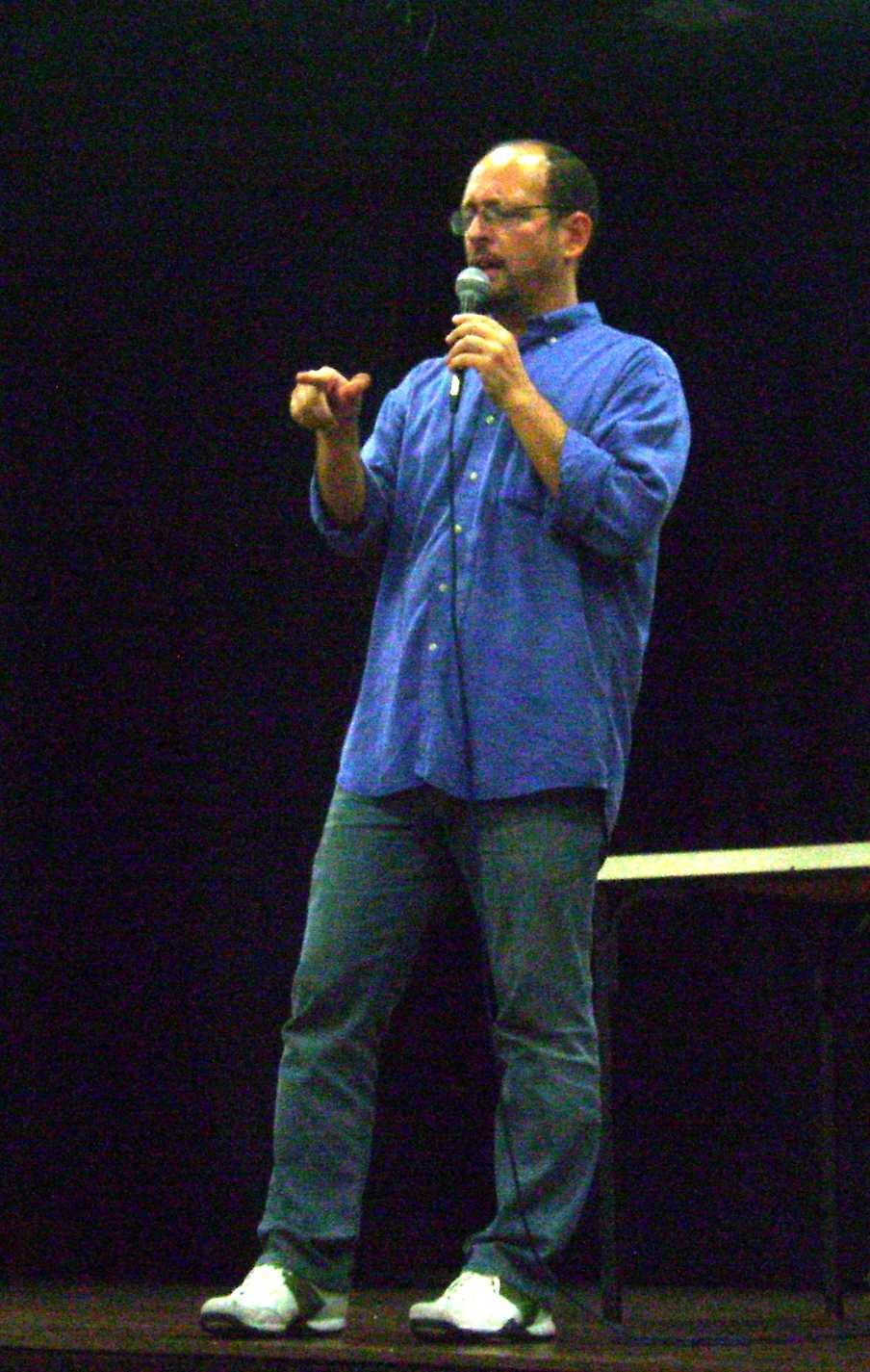 Márcio Vassallo is a Brazilian writer.